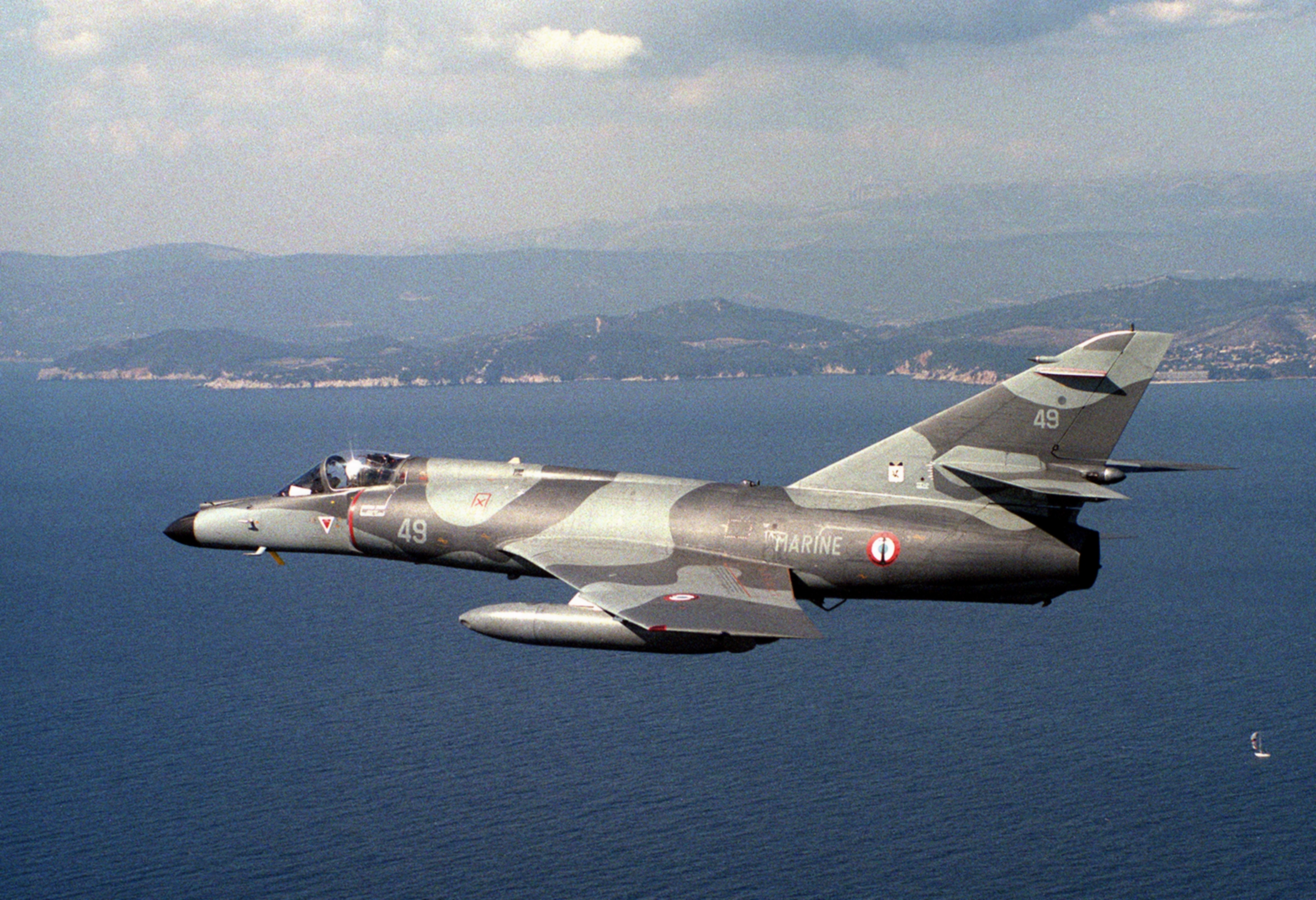 A French Aéronavale Dassault Super Étendard from Flottille 17F in flight during exercise "French Quarter '88".